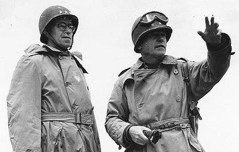 Gen. J. Lawton Collins, VII Corps, describes taking of Cherbourg to Gen. Omar Bradley, 1st U.S. Army.